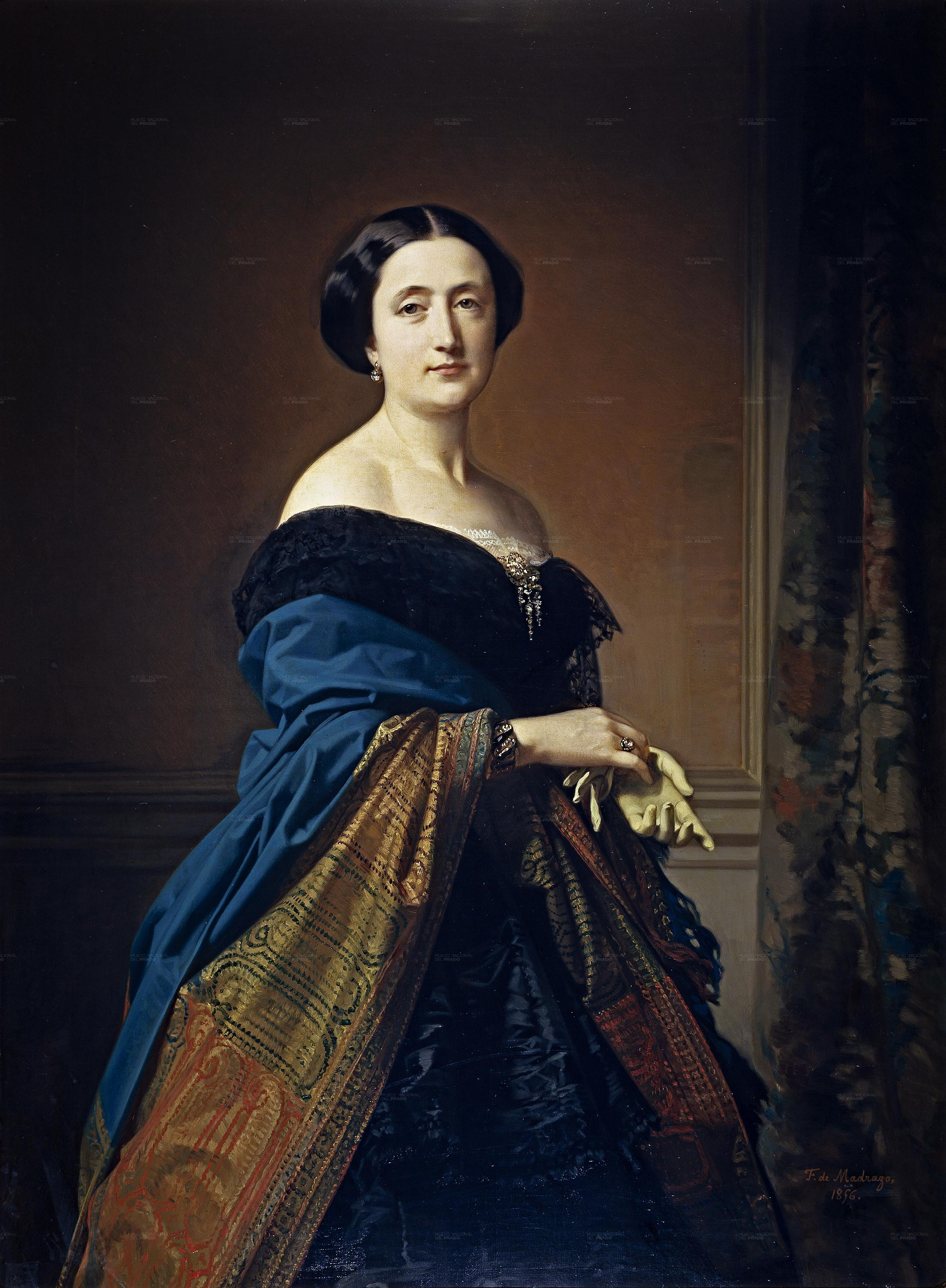 Portrait of Saturnina Canaleta, married with Jaime Girona y Agrafel